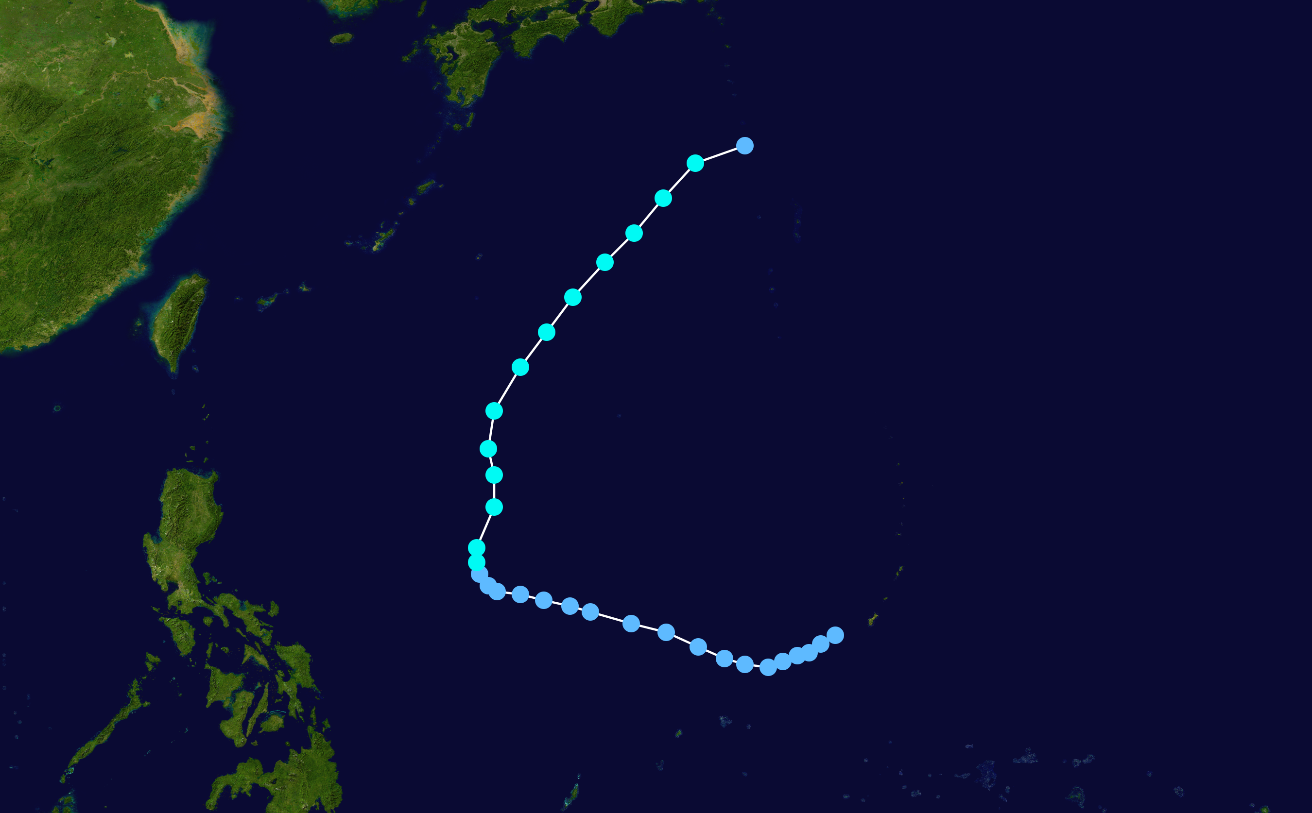 Tropical Storm Bebinca (2006) track. Uses the color scheme from the Saffir-Simpson Hurricane Scale.